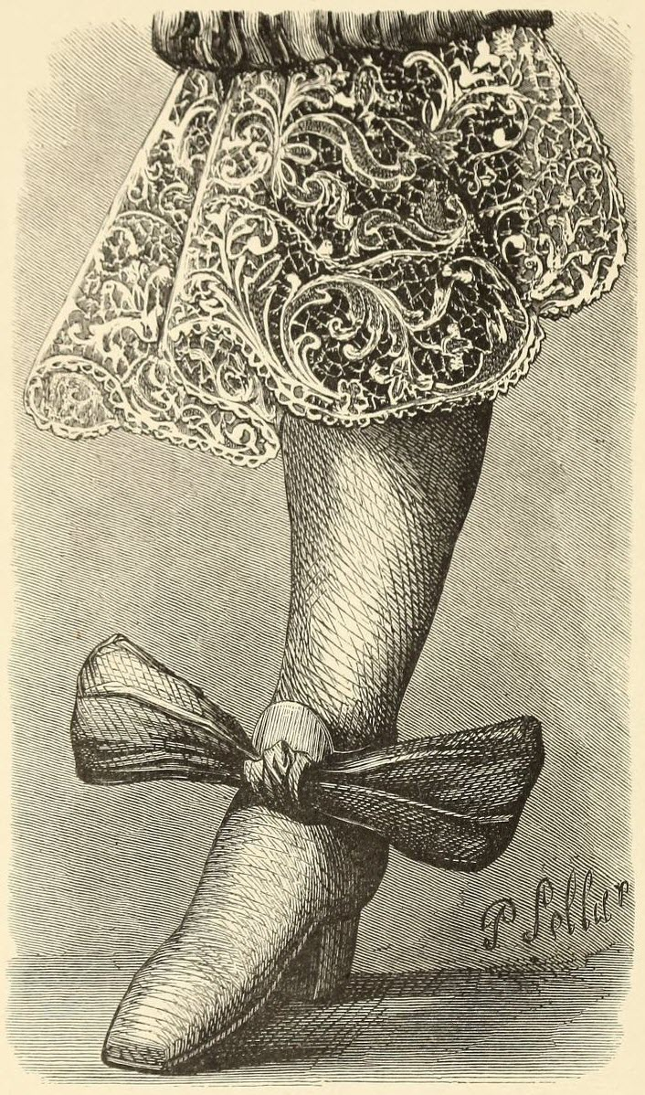 [Detail] Illustration from Fanny Bury Palliser, A History of Lace (1875). In the Mary Ann Beinecke Decorative Art Collection. Sterling and Francine Clark Art Institute Library.